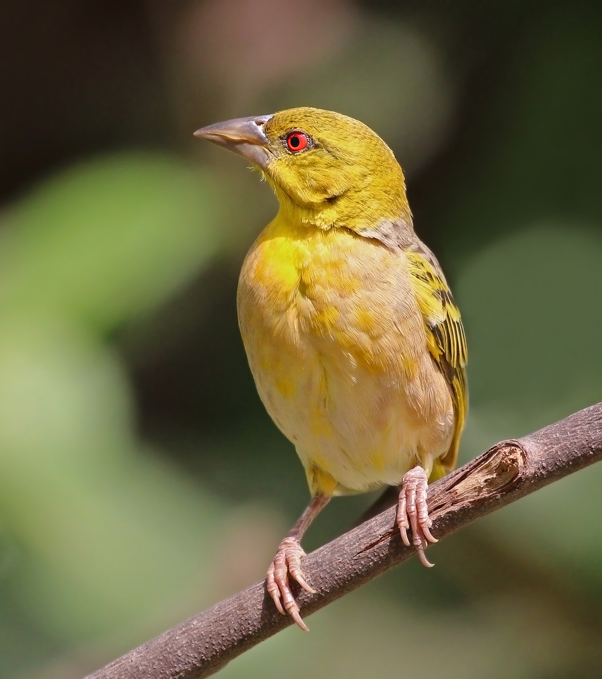 Village weaver (Ploceus cucullatus cucullatus) female, The Gambia